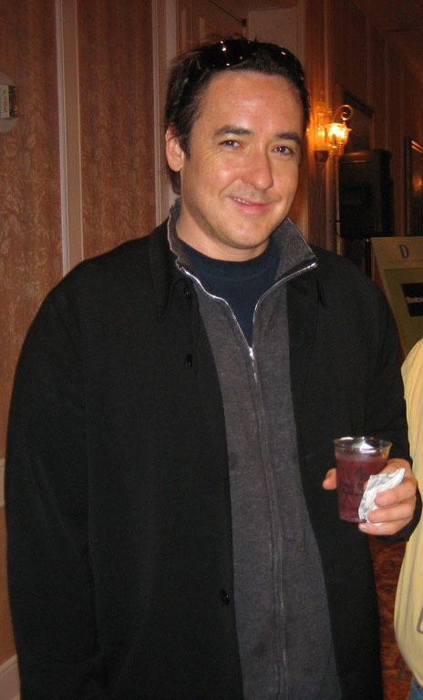 John Cusack, altered from original source